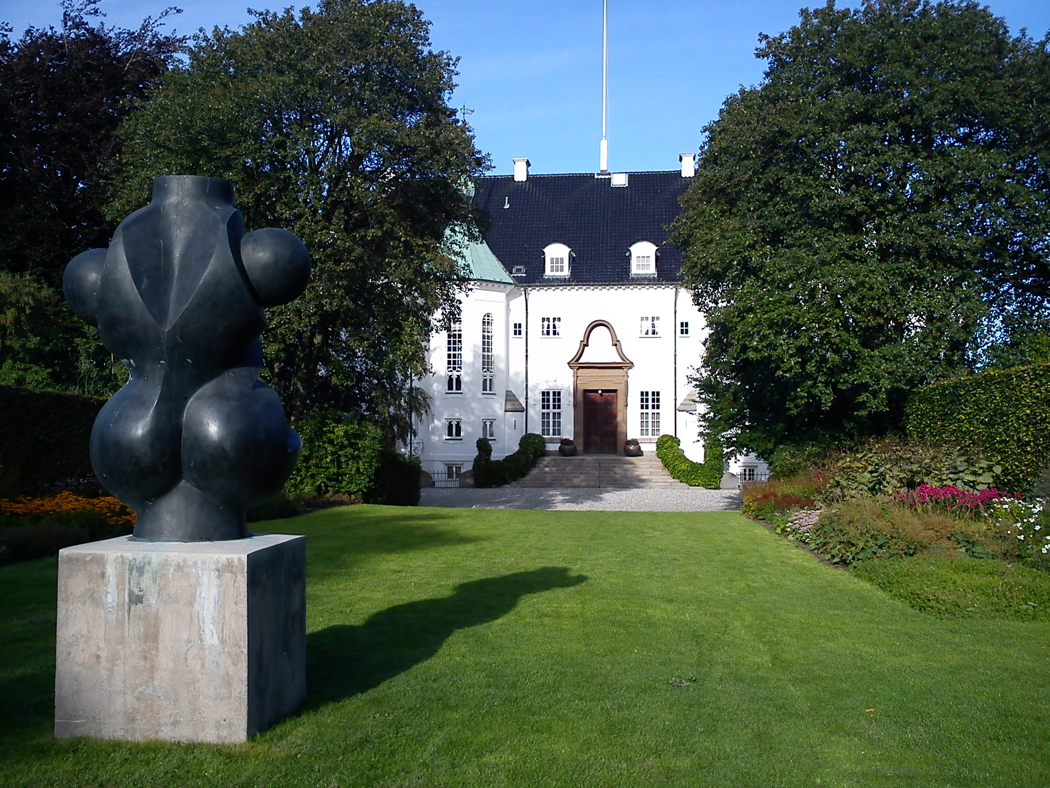 Marselisborg Slot